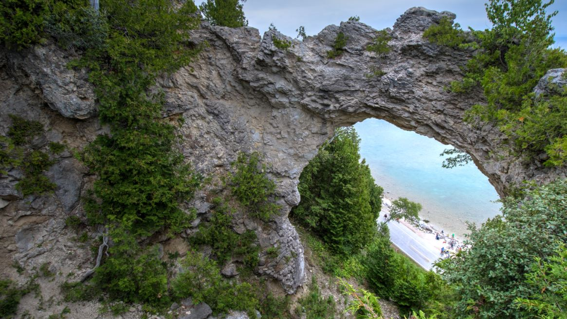 Arch Rock, a geologic rock feature on Mackinac Island's east side. Photo is taken from the overlook situated above the rock; the shore and main road around the island can be seen below. (